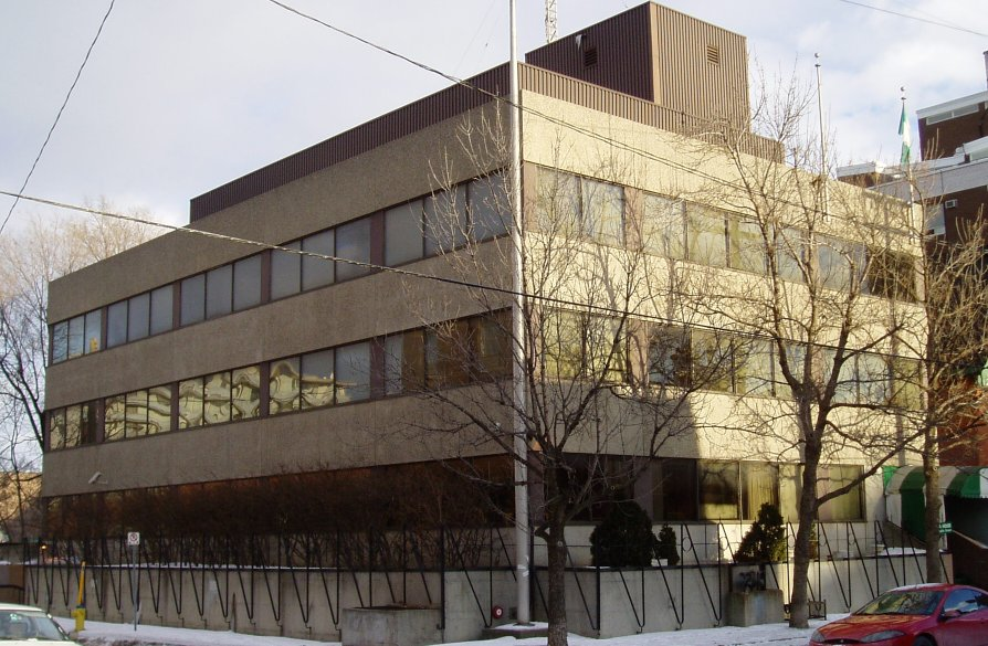 Embassy of Nigeria in Ottawa, Canada